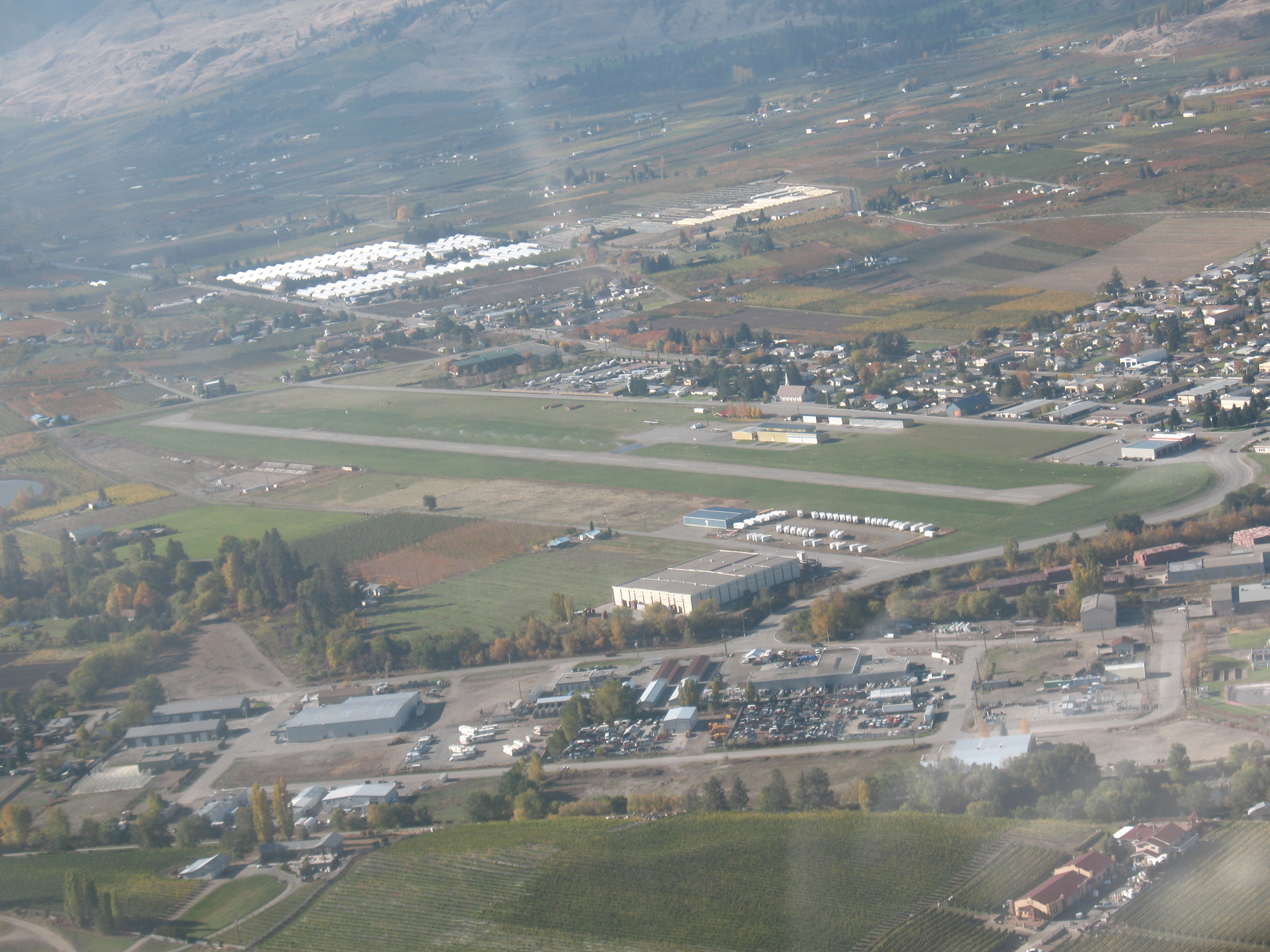 Photo of Oliver Airport (CAU3)